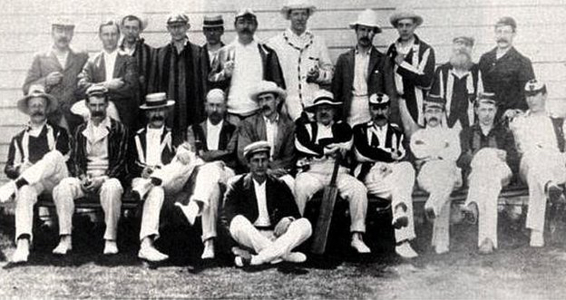 Members of the Authors XI cricket team with their opponents, the Artists, at a 22 May 1903 cricket game. Prominent authors in the photo include P. G. Wodehouse (back row, third from left), Arthur Conan Doyle (back row, sixth from left) and J. M. Barrie (seated on bench, third from right).